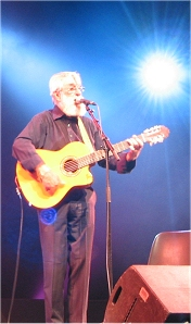 Ronnie Drew in Lorient, Brittany in 2004